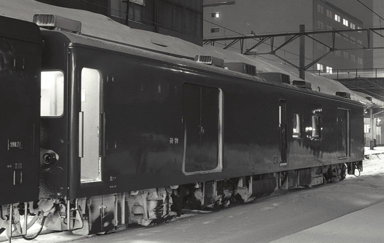 JNR Passenger car. Sapporo Sta., Hokakido.(札幌駅にて) （国鉄マニ30 2011 荷物車）